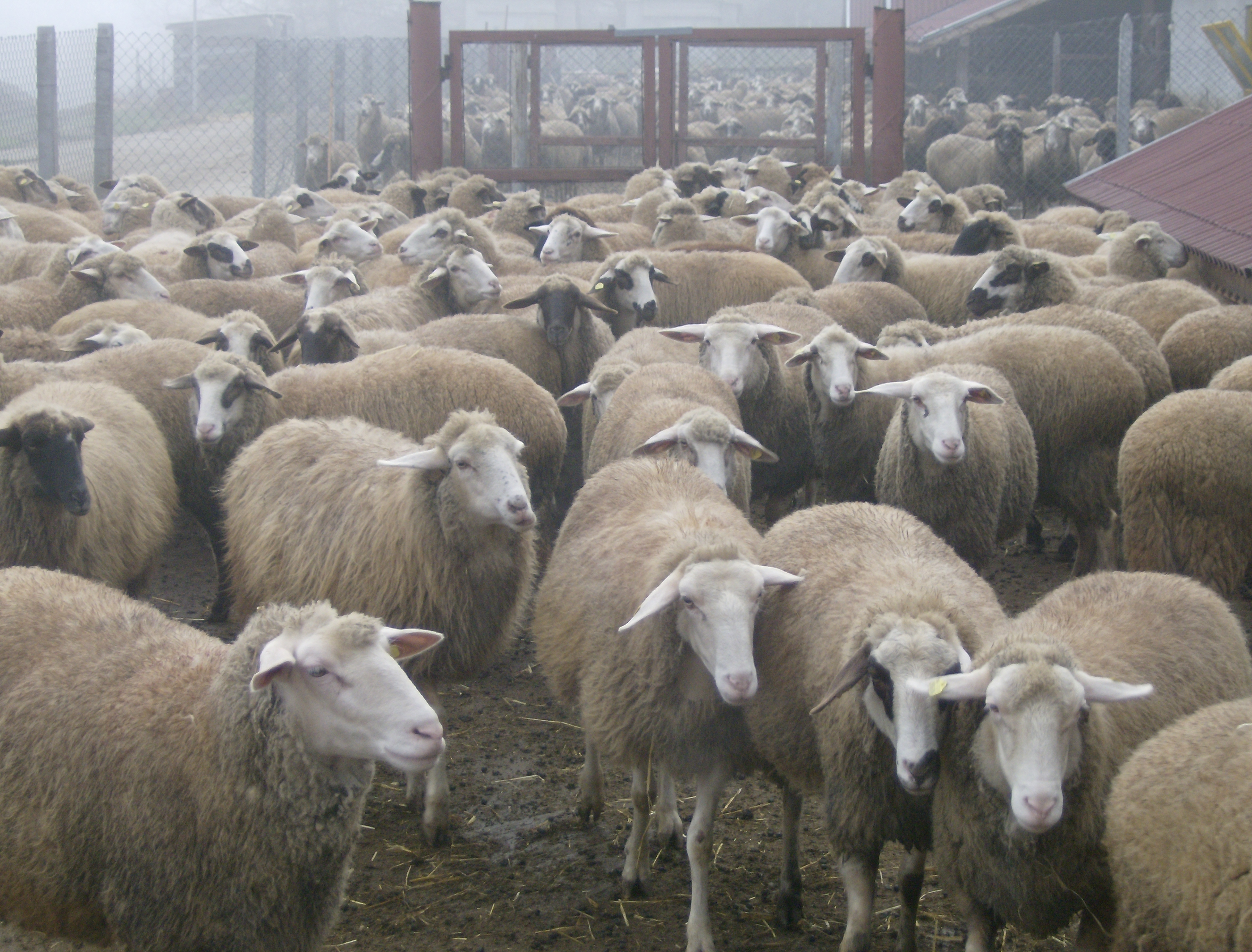 Synthetic Population Bulgarian Milky Sheep